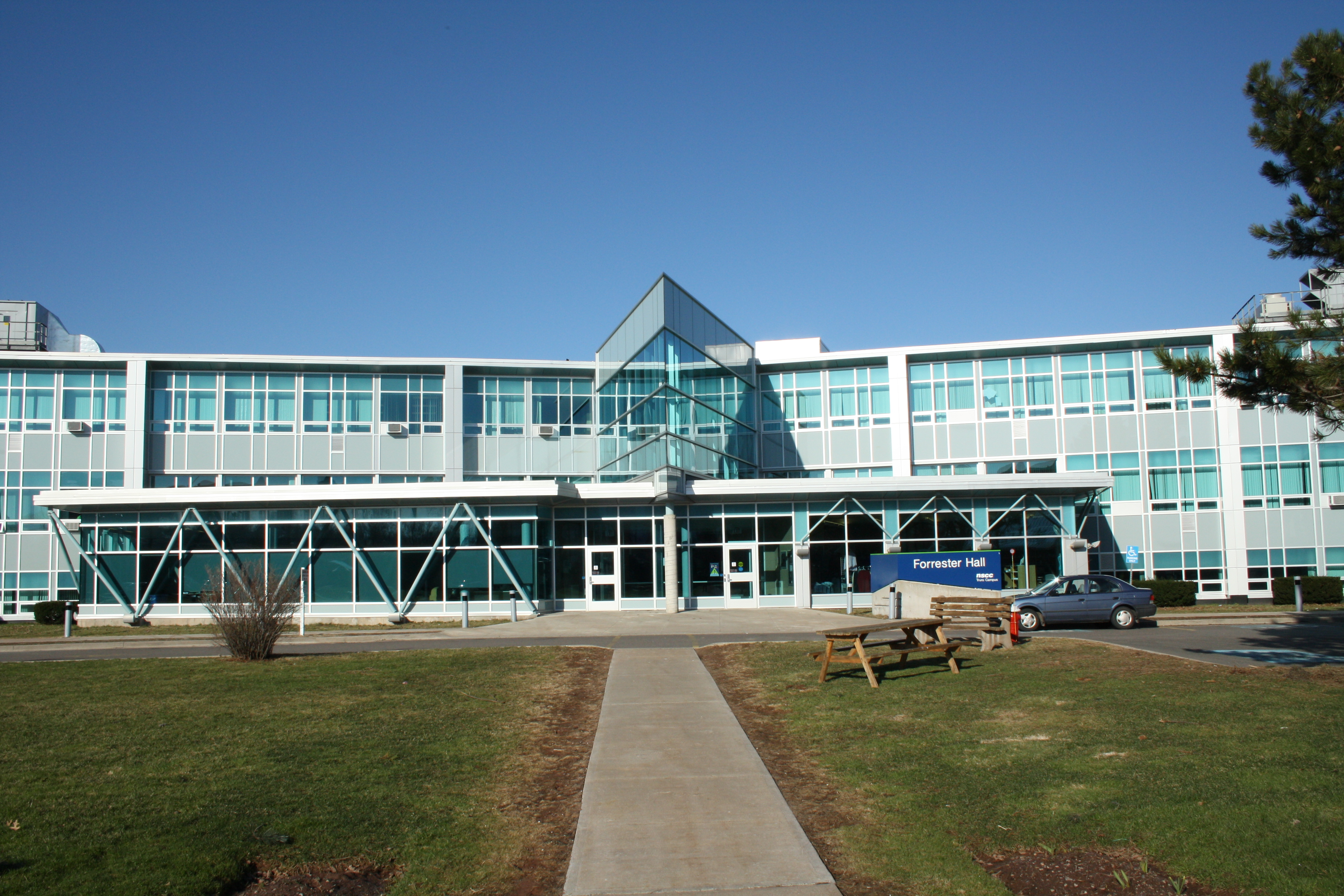 A photo of the front entrance of Forrester Hall, at the Nova Scotia Community College in Truro, Nova Scotia. The current facade of the building was constructed several years ago in an effort to modernize the building, as well as give students a place to study, buy items related to their classes, and to meet up. The recent additions consisted of the Student Commons on the left side, the bookstore on the right, and the mezzanine at the top, which lies between the second (ground-level) and third floors.